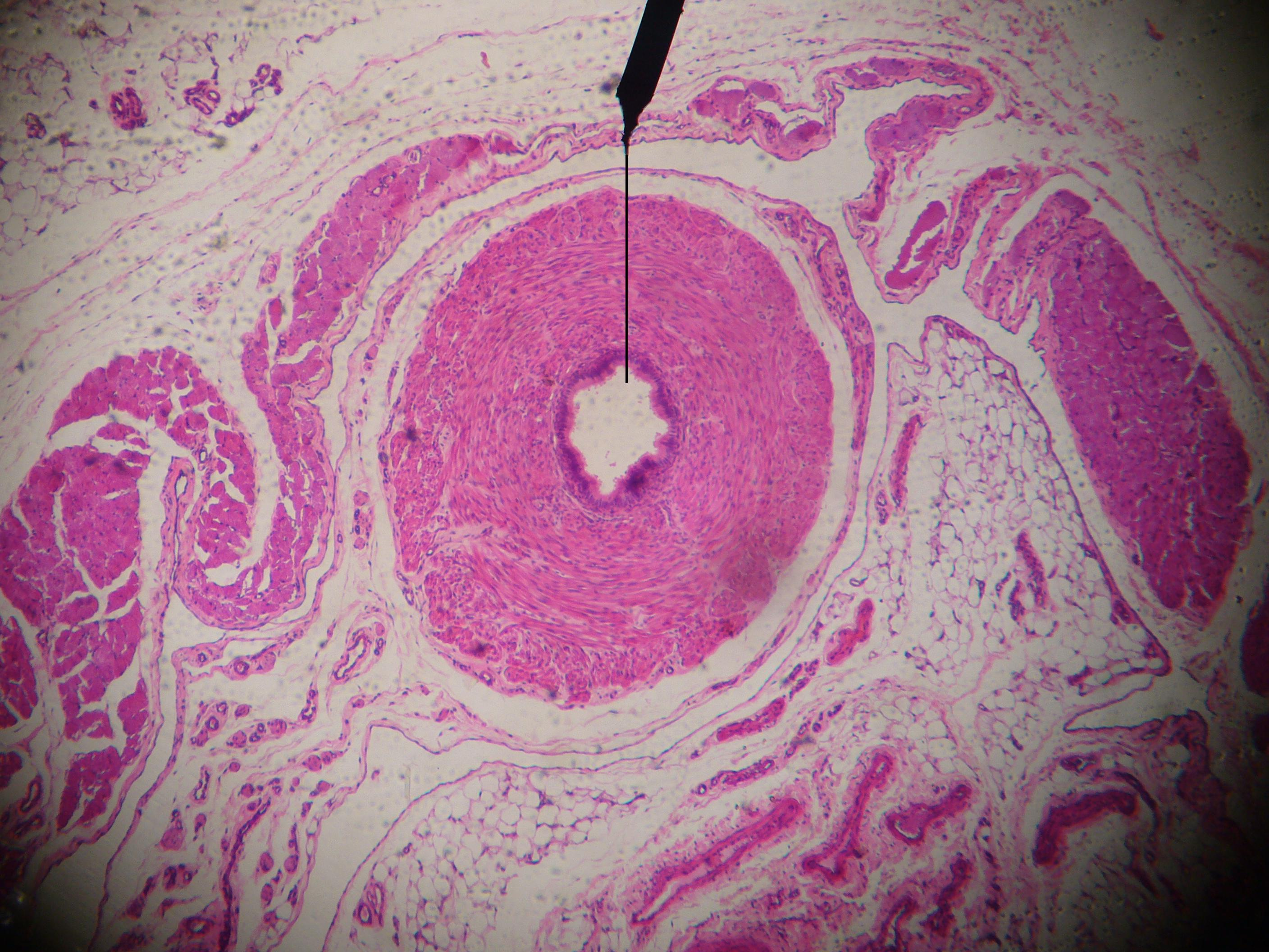 Author' own picture. Human vas deferens. Digital camera shot through a microscope.